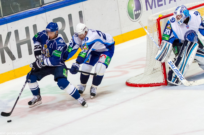 Amur Khabarovsk forward Dmitri Tarasov (in blue) holds the puck as HC Dynamo Minsk forward Andrei Stas tries to take it away during KHL game on September 26, 2012. Goalie Lars Haugen is in the net.